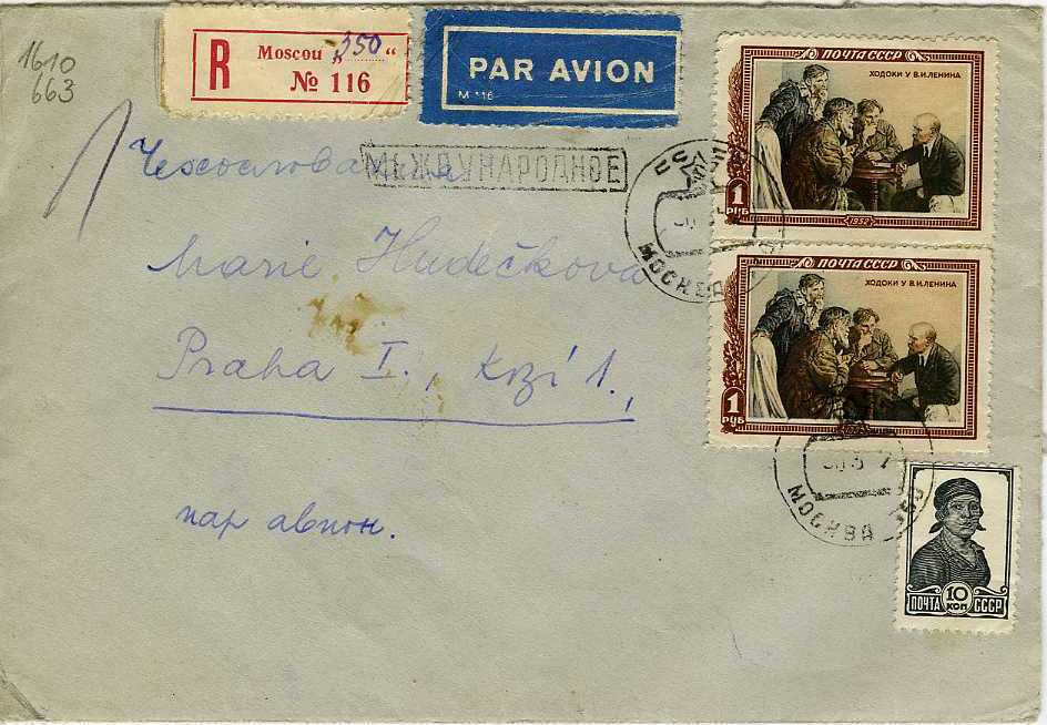 USSR cover with two USSR Lenin stamps of 1952 and a definitive USSR stamps and registered letter, airmail and international mail postmarks and a calendar postmark, sent from Moscow to Praha.